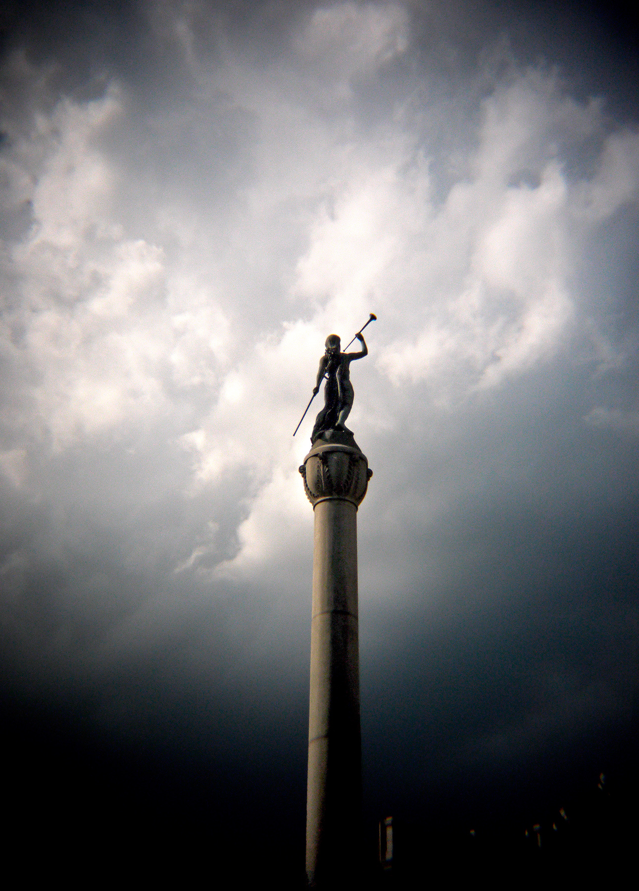 Central Troy Historic District